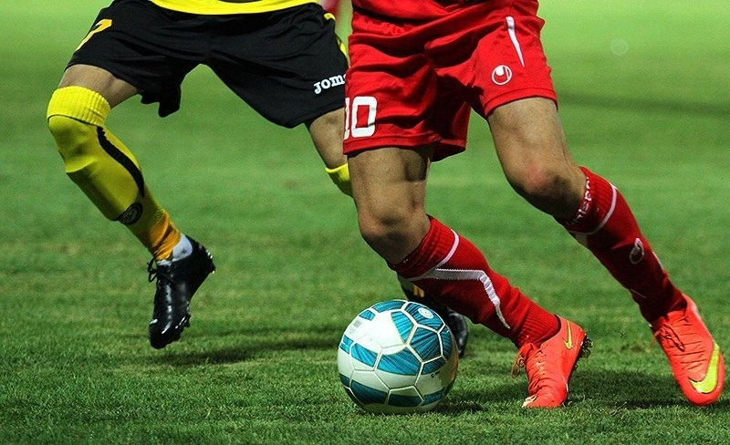 A photo from FC Persepolis–Sepahan rivalry.